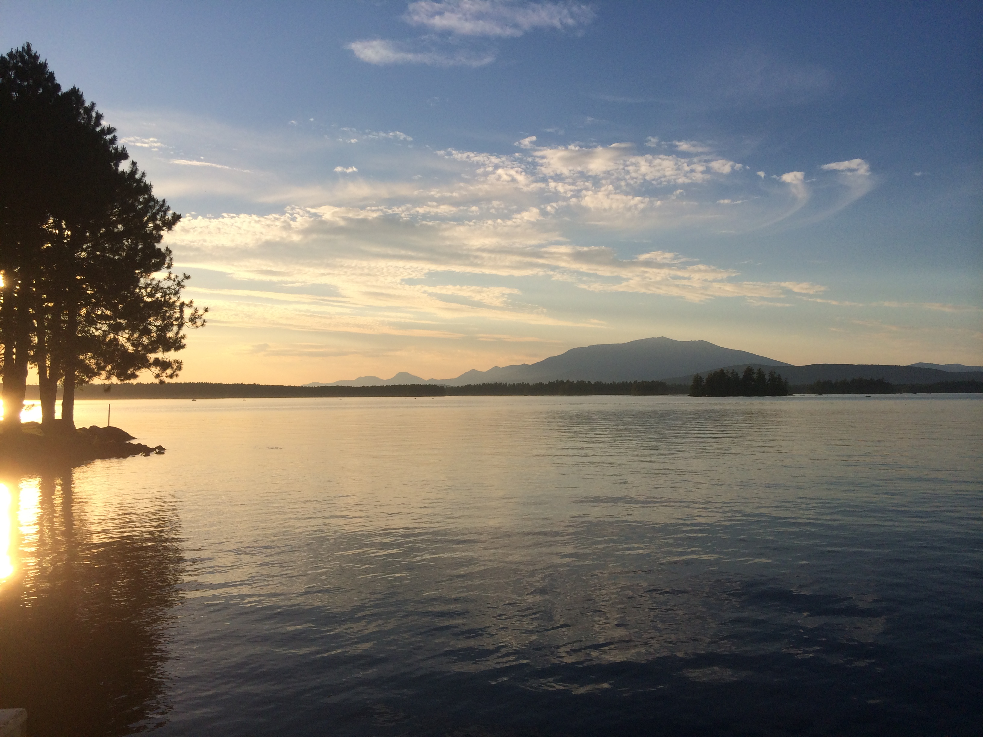 Lake Millinocket and Mt. Katahdin — near Millinocket in Penobscot County, central Maine. In June 2014.